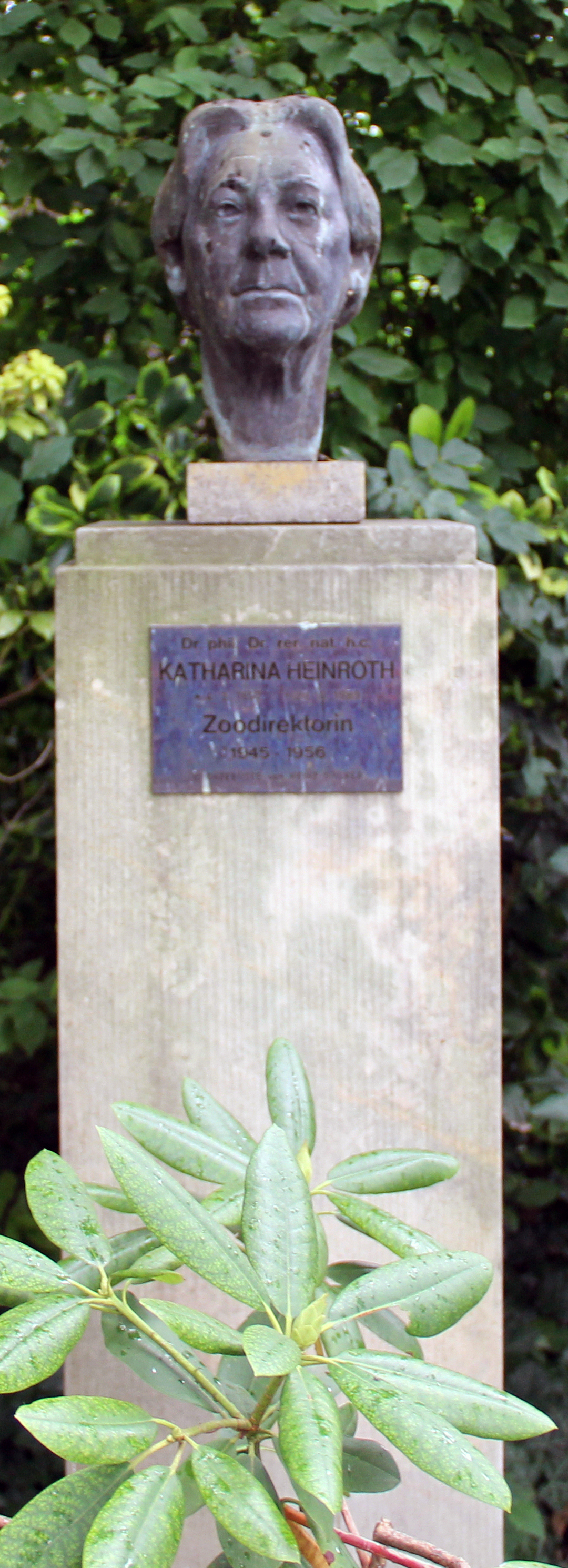 Bust, Katharina Heinroth, Hardenbergplatz 8, Berlin-Tiergarten, Germany